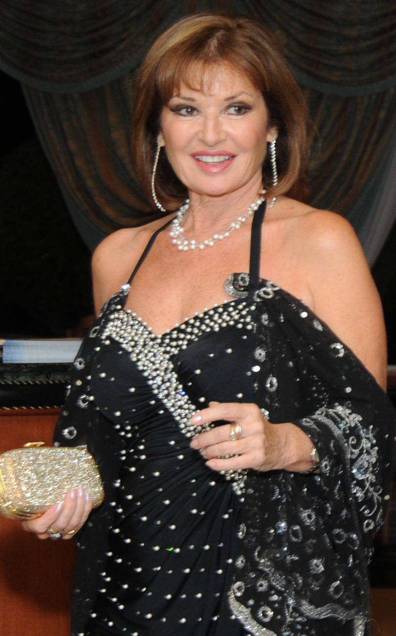 Stephanie Beacham in September 2009